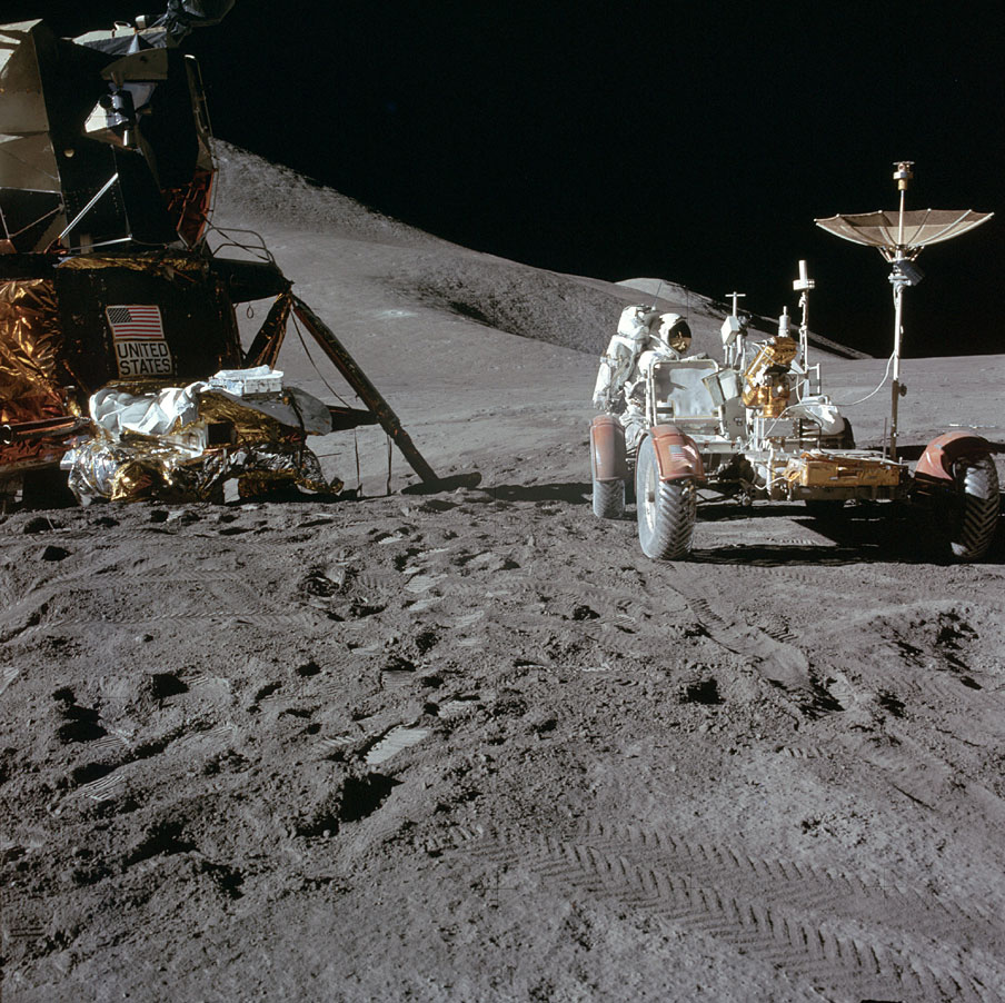 Irwin near LRV